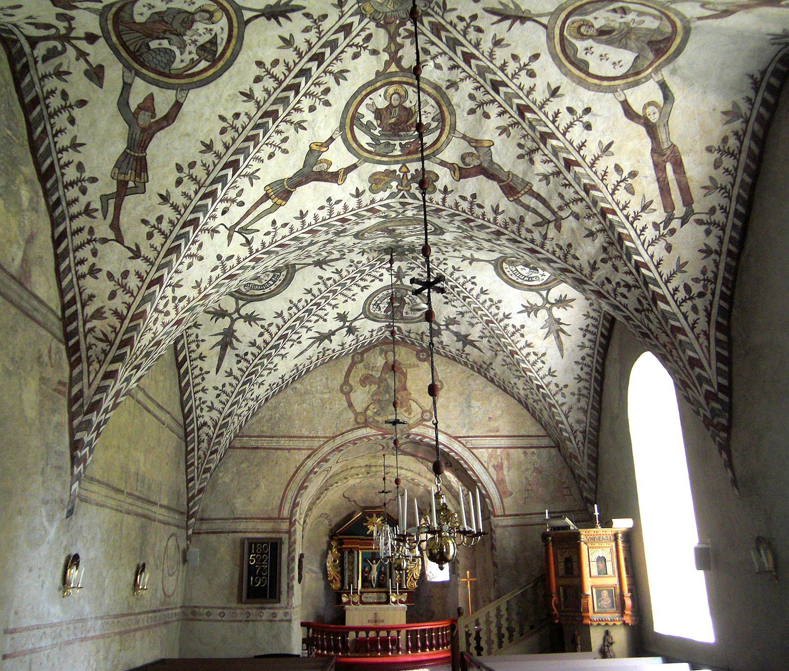 Interior with Mediaeval painted ceiling of Gökhem church, Vilske hundred, Falköping municipality, former Skaraborg county, the Diocese of Skara, Västergötland, Sweden.